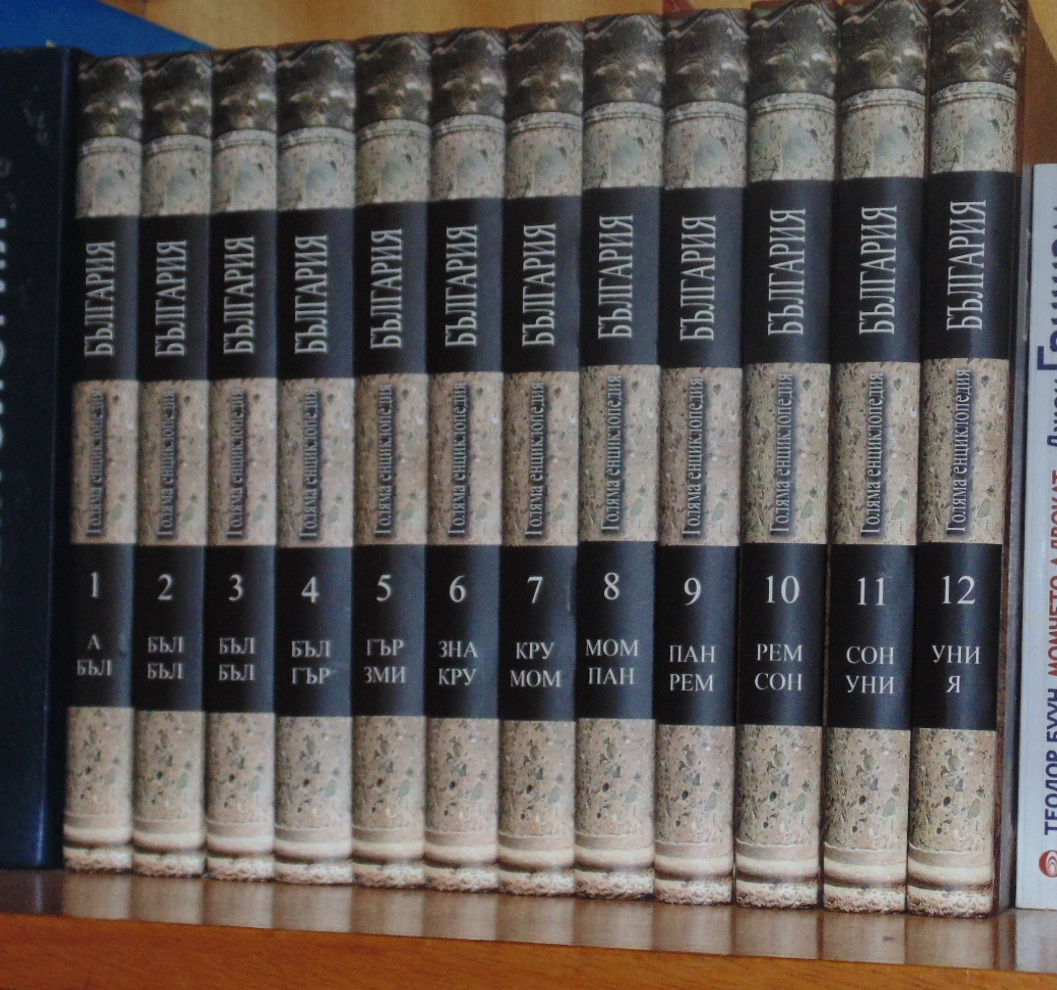 Голяма енциклопедия България